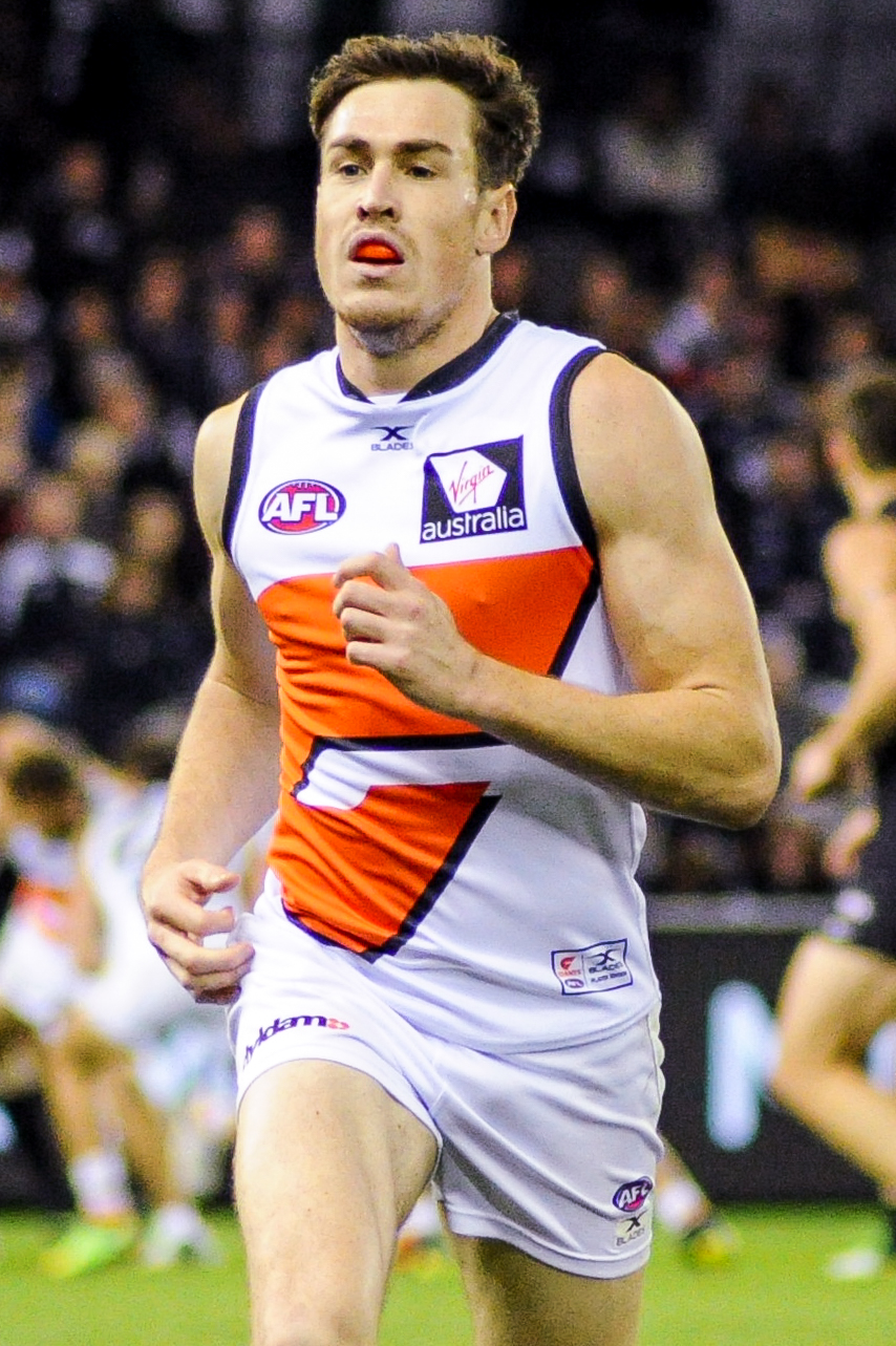 Jeremy Cameron during the AFL round twelve match between Carlton and Greater Western Sydney on 11 June 2017 at Etihad Stadium in Melbourne, Victoria.